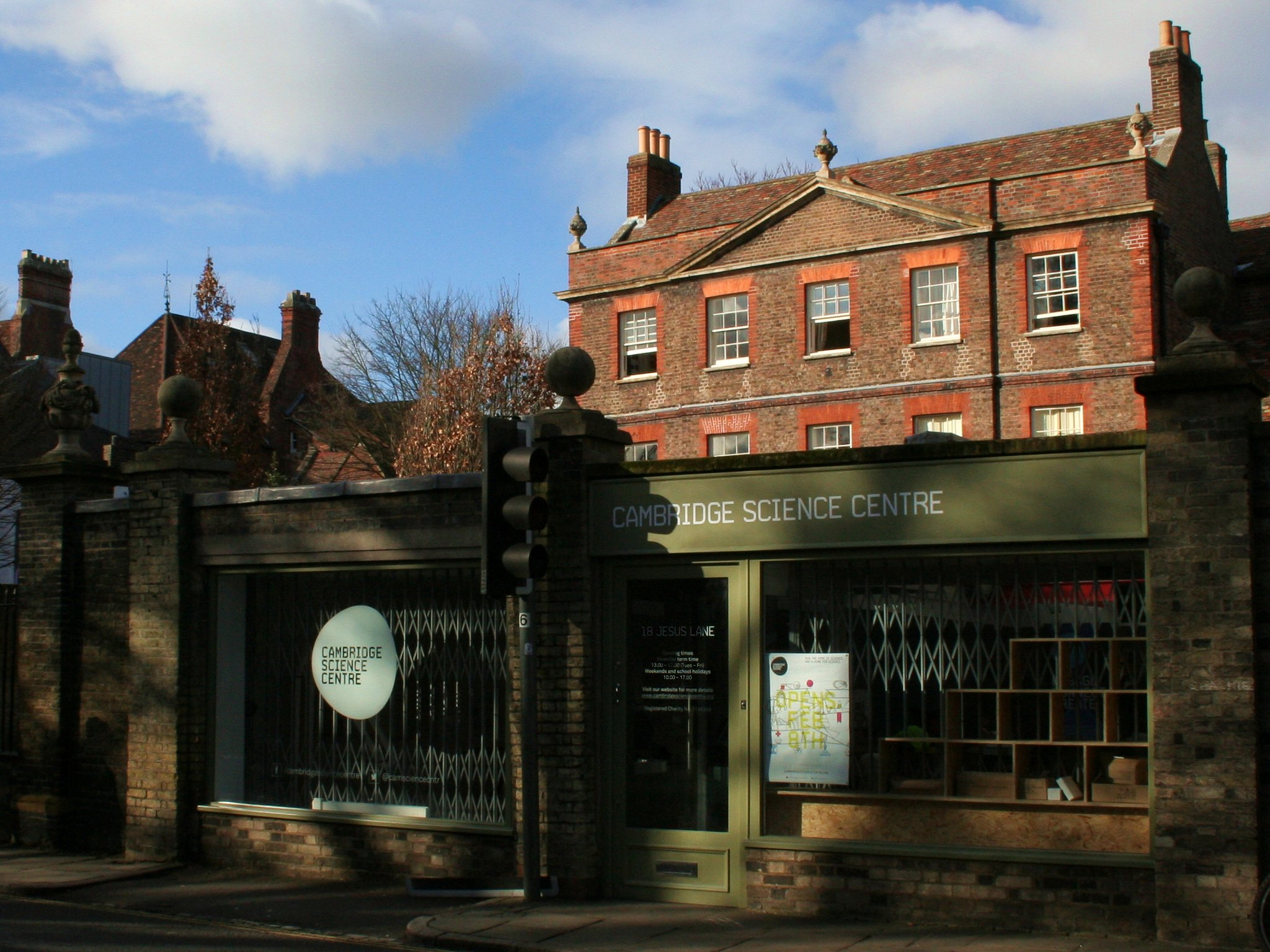 The Cambridge Science Centre exterior in daylight.